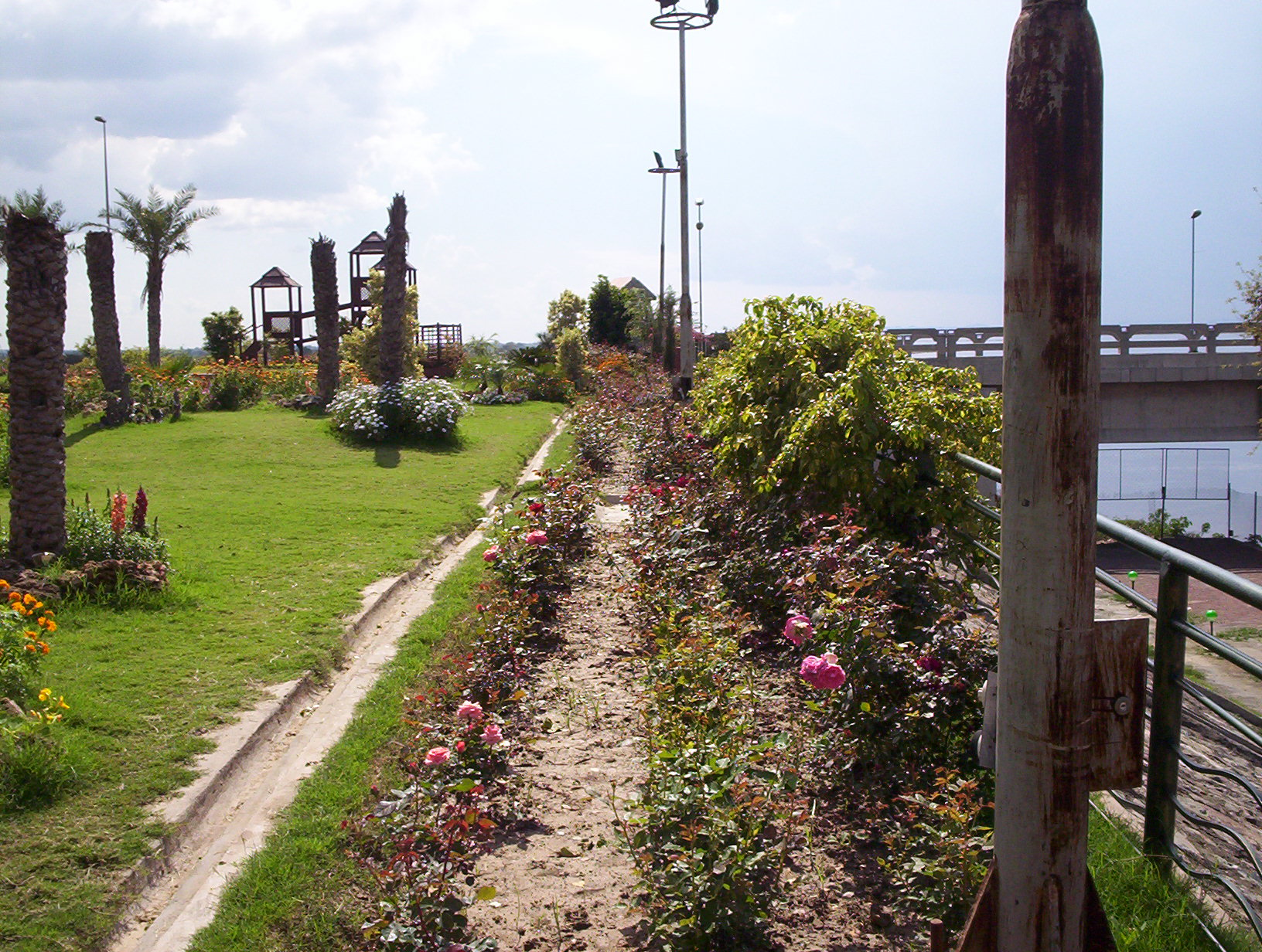 Tulip lawn Jhelum